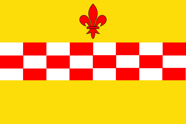 Flag of Rixensart